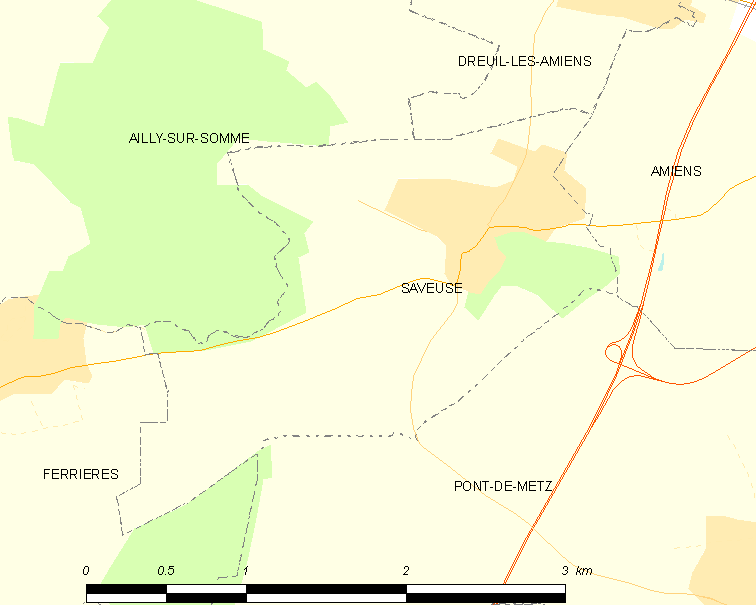 Map of French municipality Saveuse